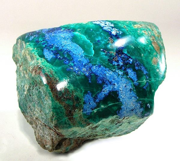 Shattuckite Locality: New Cornelia Mine (Ajo Mine), Ajo, Little Ajo Mts, Ajo District, Pima County, Arizona, USA (Locality at ) Not only hard to find, but really quite BEAUTIFUL, an old specimen of shattuckite from Ajo that came out of the Smithsonian, and still has the old label with it (we will include it with the specimen). The specimen is polished to show off its superb color. Shattuckite is a relatively rare copper silicate, which is why you do not see specimens like this around. It is here associated with malachite and other copper minerals. This specimen passed from the Smithsonian into the Dr. Gary Hansen Collection quite awhile back, and thence to us when i bought that collection last summer. I am sure this is more than 50 years old. 5.3 x 5.1 x 5.0cm